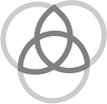 الشكل الهندسي لمثلث الحياة